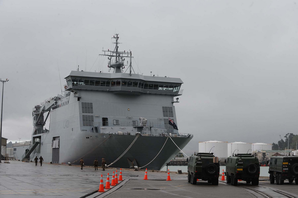 LAVS lined up at Lyttelton Port as part of the disaster recovery of the Christchurch Earthquake on 23 Feb 2011. Crown Copyright 2011, NZ Defence Force – Some Rights Reserved.